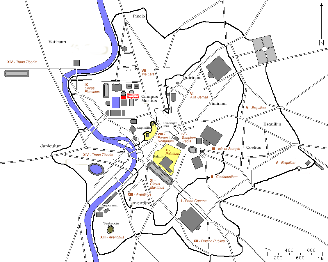 Basilica Neptuni on a map of ancient Rome around 300 AD